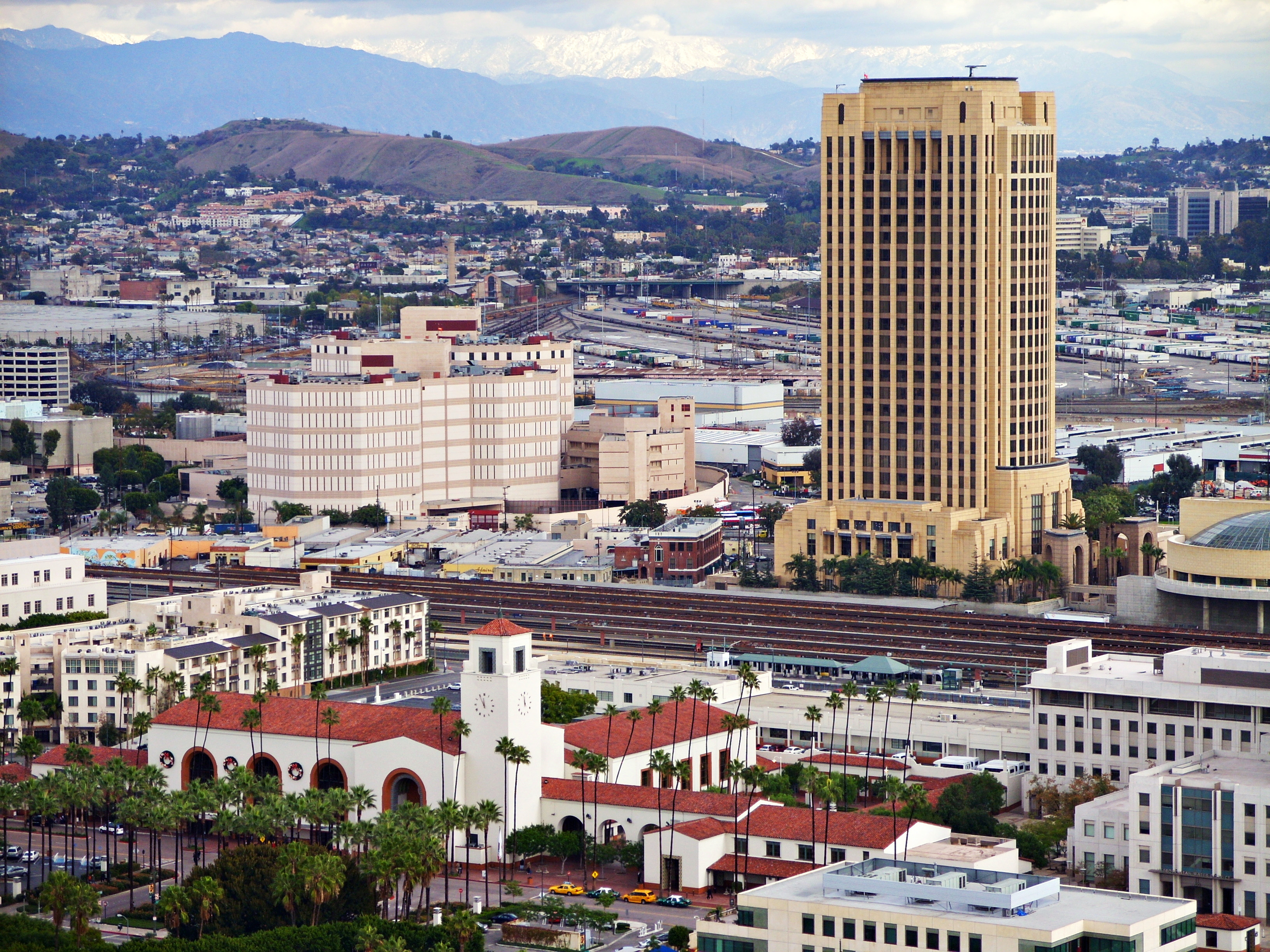 Los Angeles, California, USA. Snow-capped mountains in background.